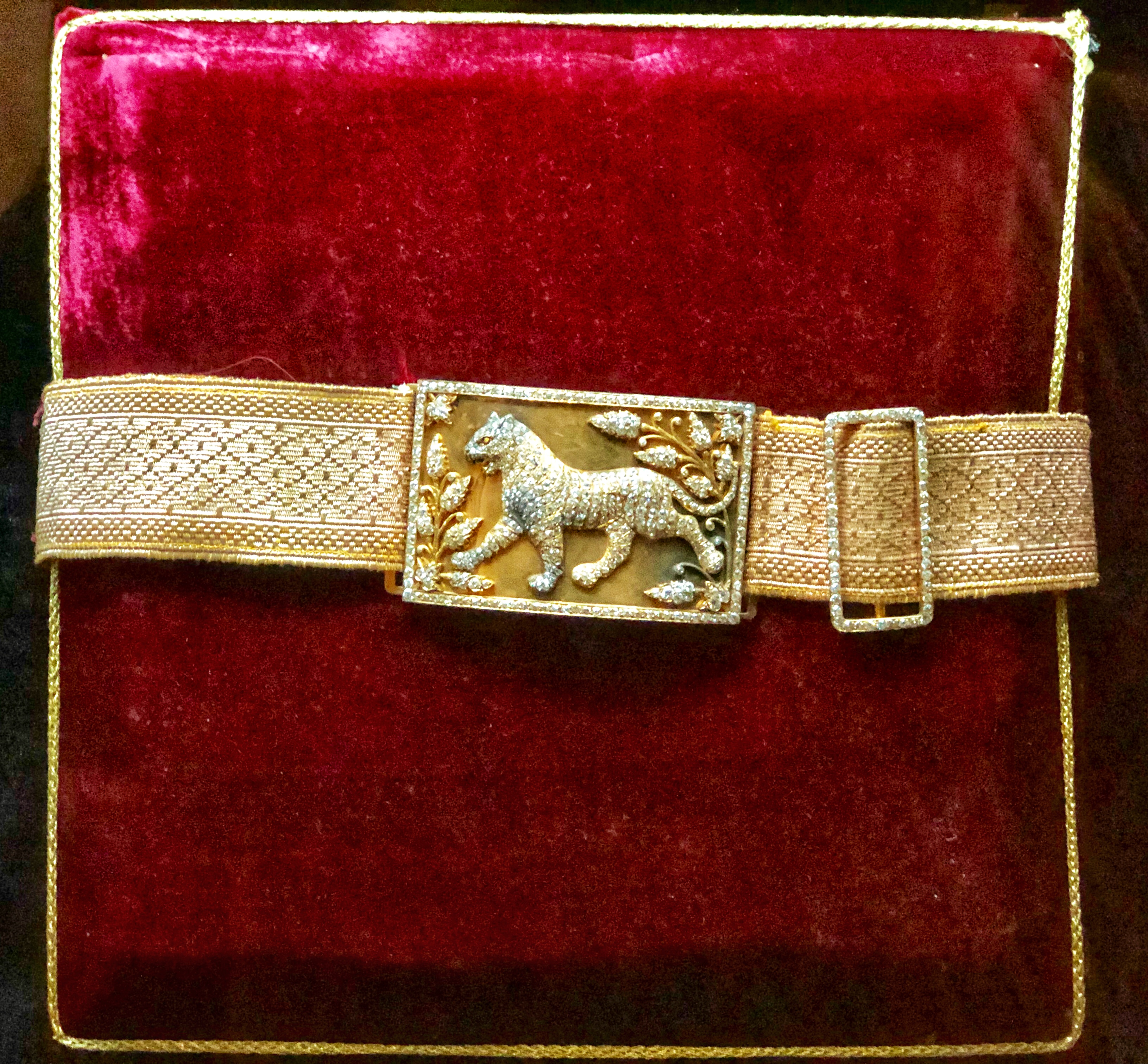 Made for the Nizam's of Hyderabad